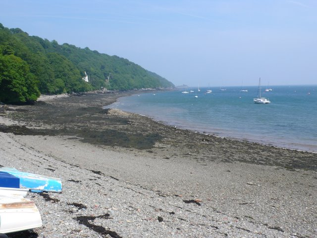 Anglesey Coast View north east along the north side of the Menai Straits near Bryn-mel